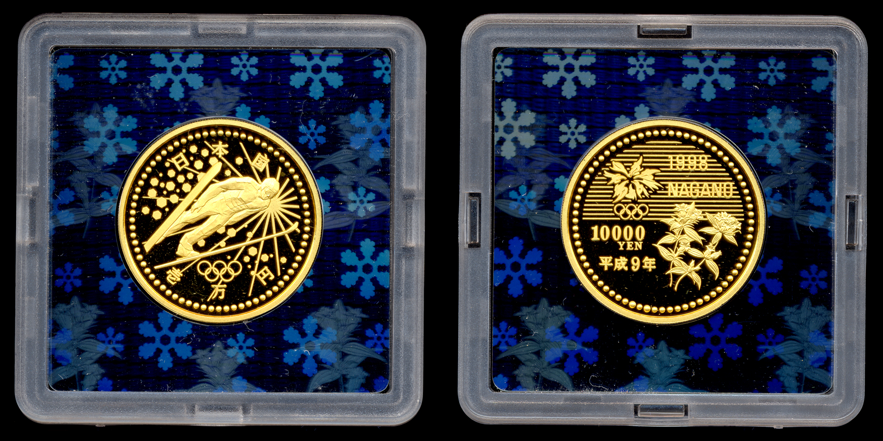 Nagano Olympic-10000yen-1st